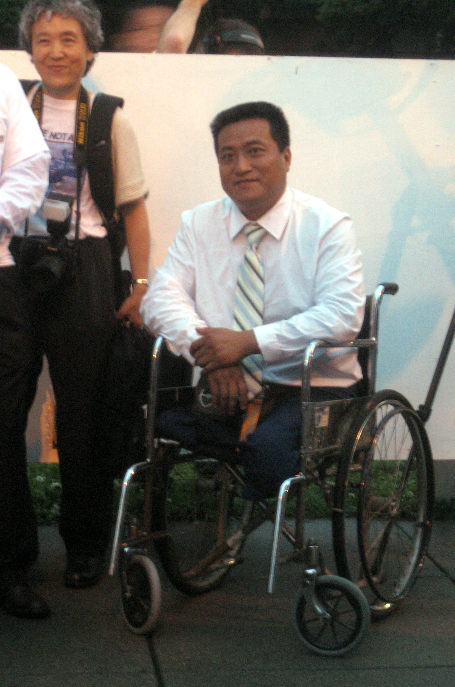 Fang Zheng, one of the tanks ran over him, resulting in the loss of his legs.